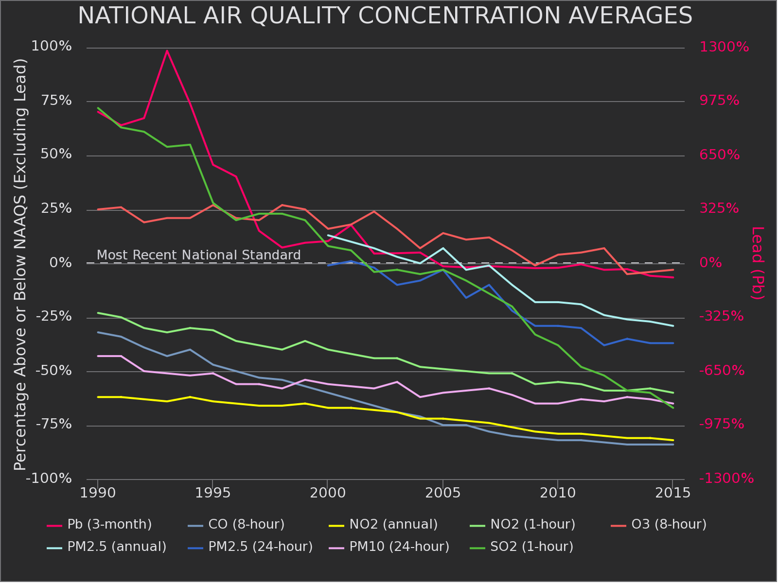 Graph, "National Air Quality Concentration Averages", showing decreases in US air pollution concentrations during 1990 to 2015, based on monitoring data for nine air quality parameters.